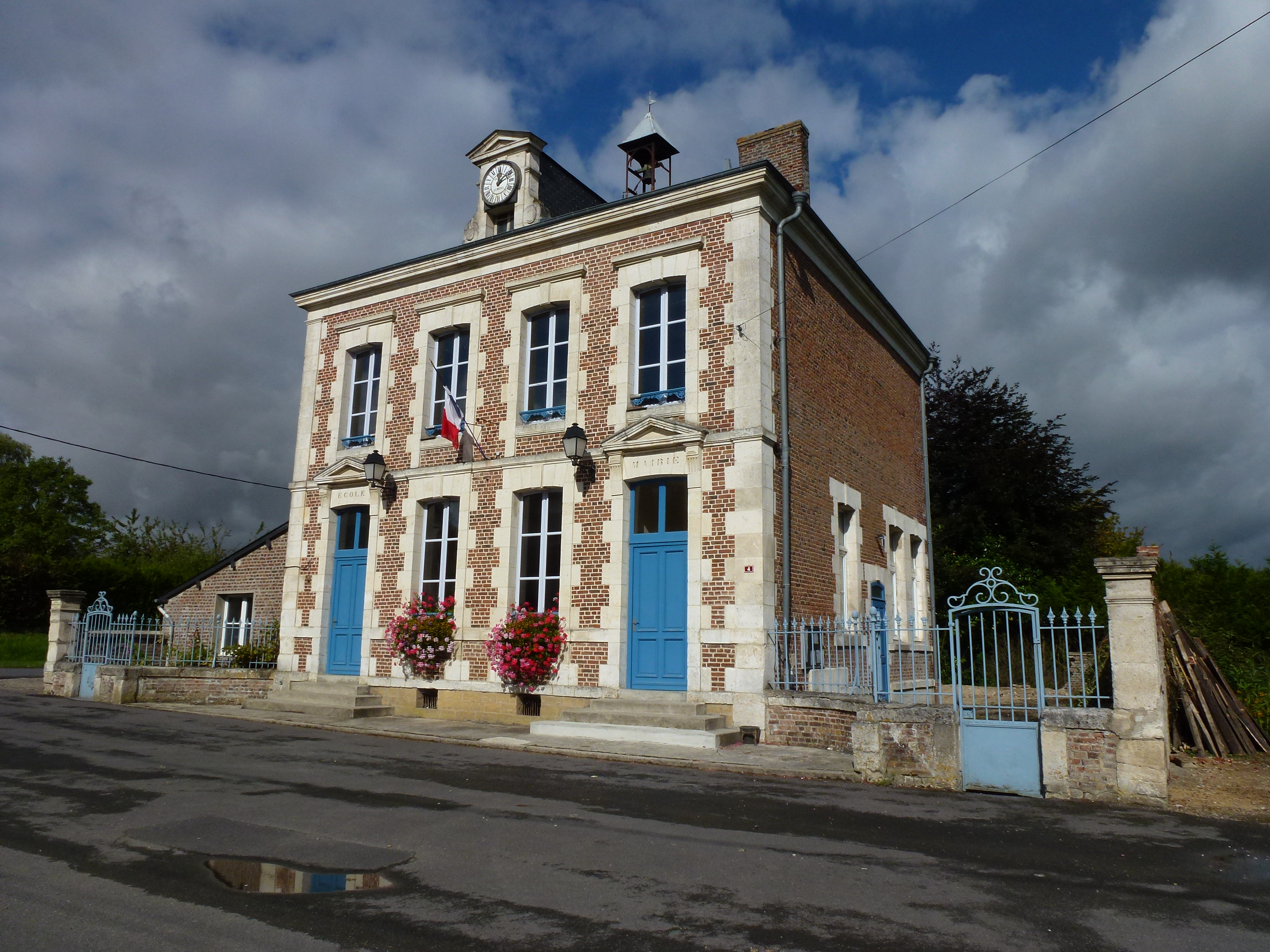 Justine-Herbigny (Ardennes) mairie Justine